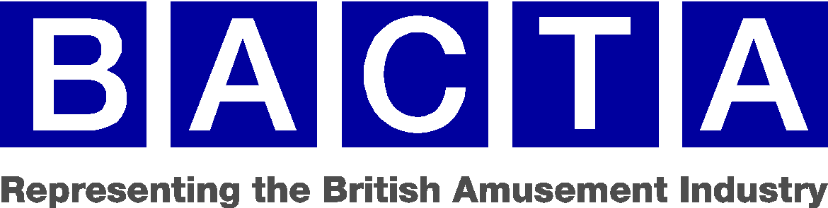 Company Logo